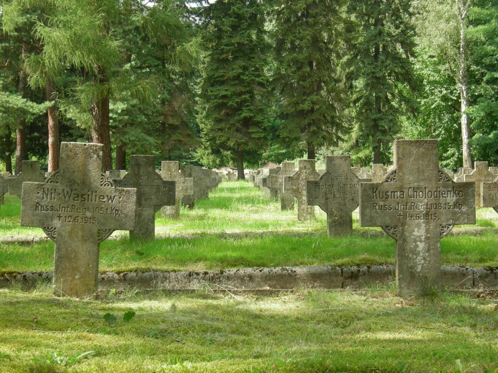 Graves of russian prisoners of WWI